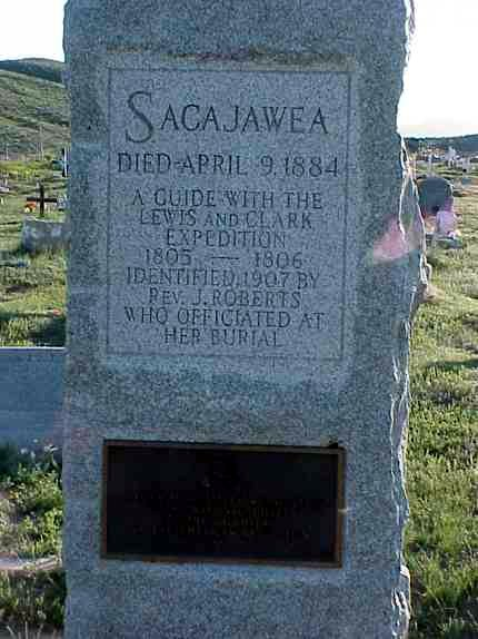 Possible gravesite of Sacagawea, Fort Washakie, Wyoming